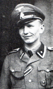 SS-Untererscharführer Søren Kam, his uniform with the 2nd class Iron Cross ribbon and Wound Badge.